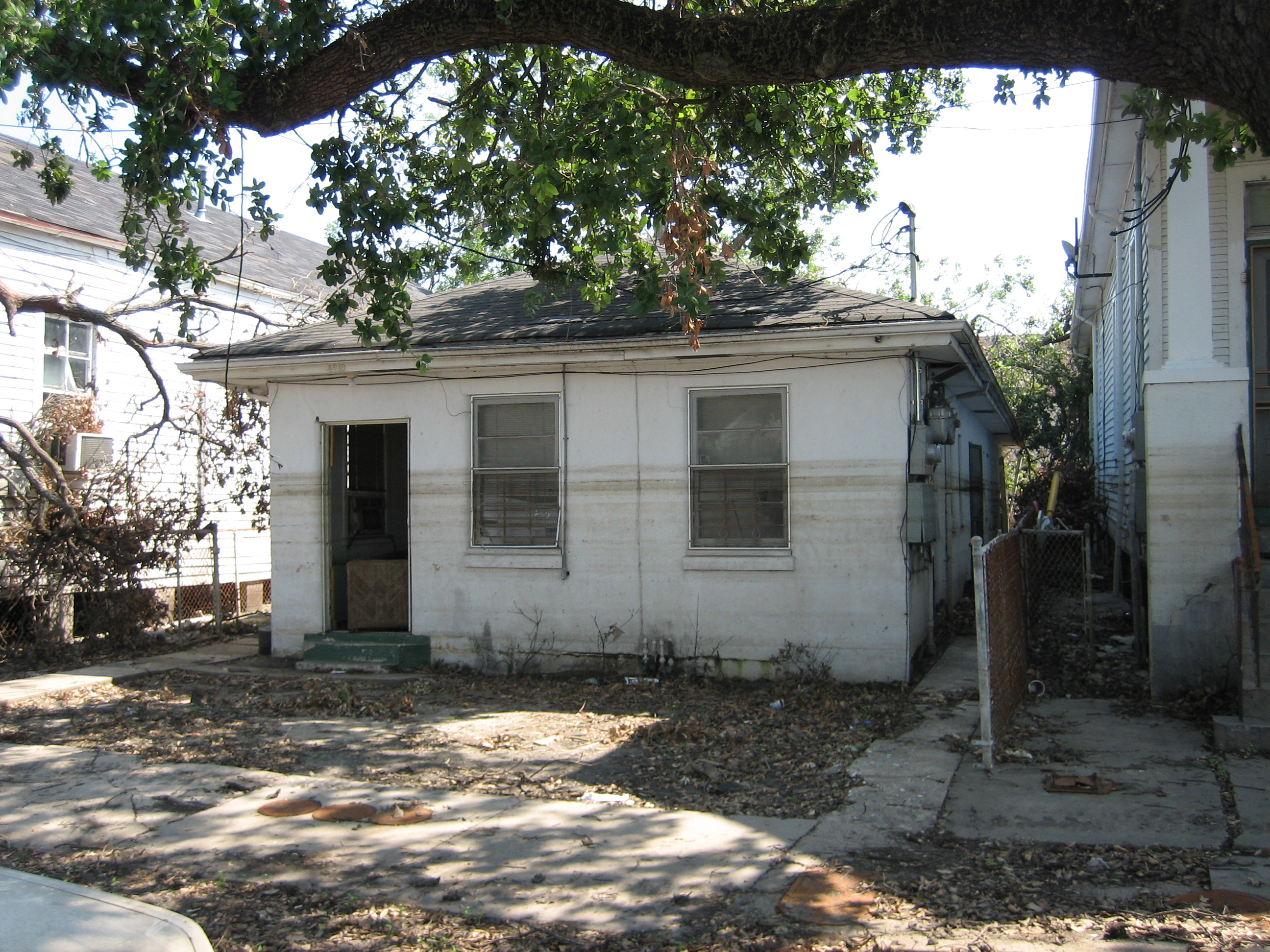 One story building flooded after Hurricane Katrina, S. Carrollton Avenue, Mid City New Orleans. Flood water high water mark visible.